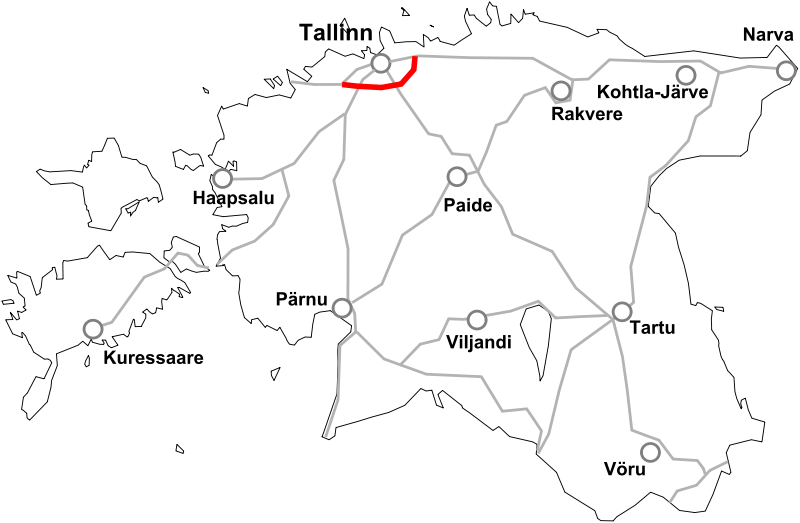 Map of Estonian national road 11, white background. Bigger cities marked.